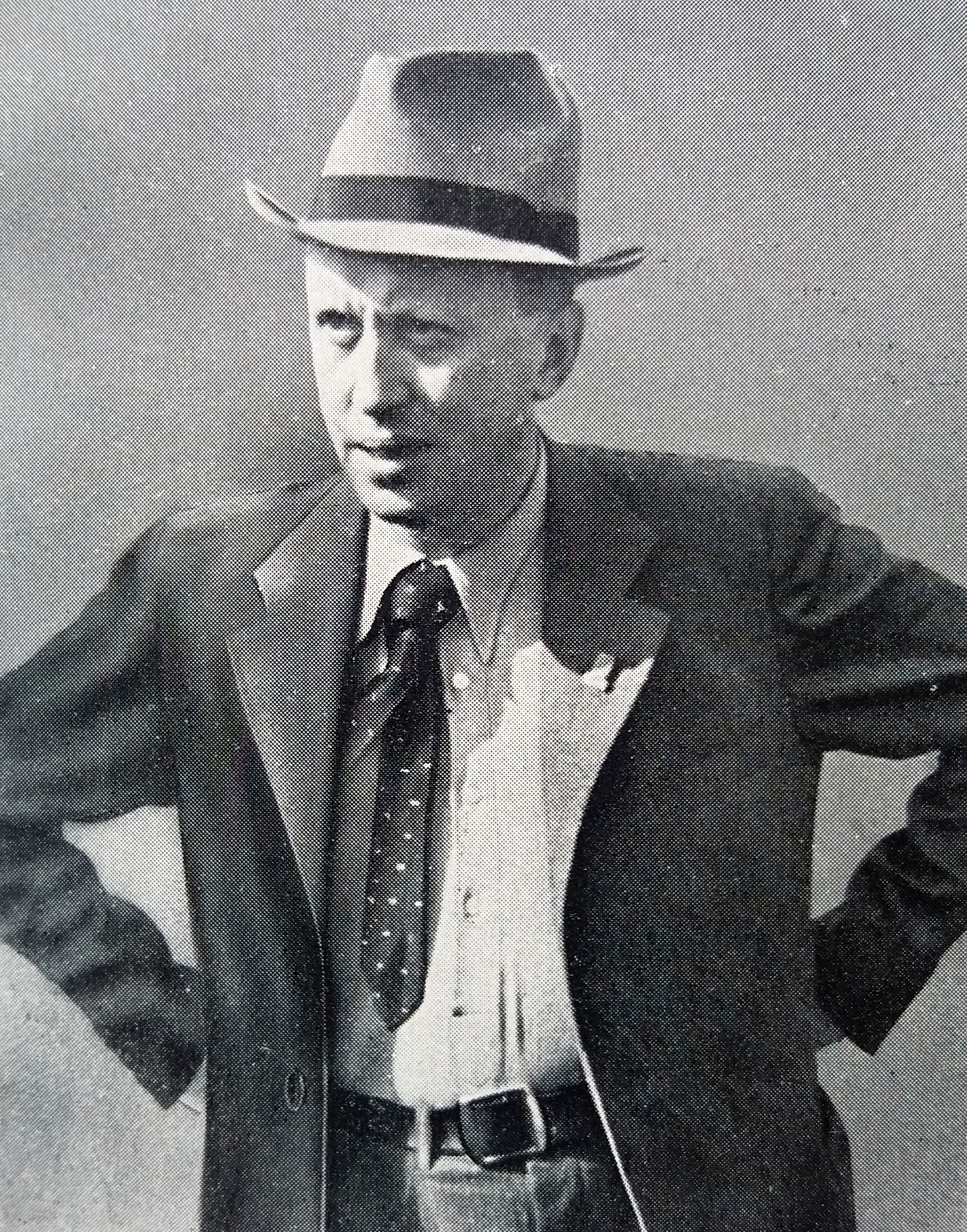 Karel Čapek, Czech writer (photo from the 30th years of 20th century)